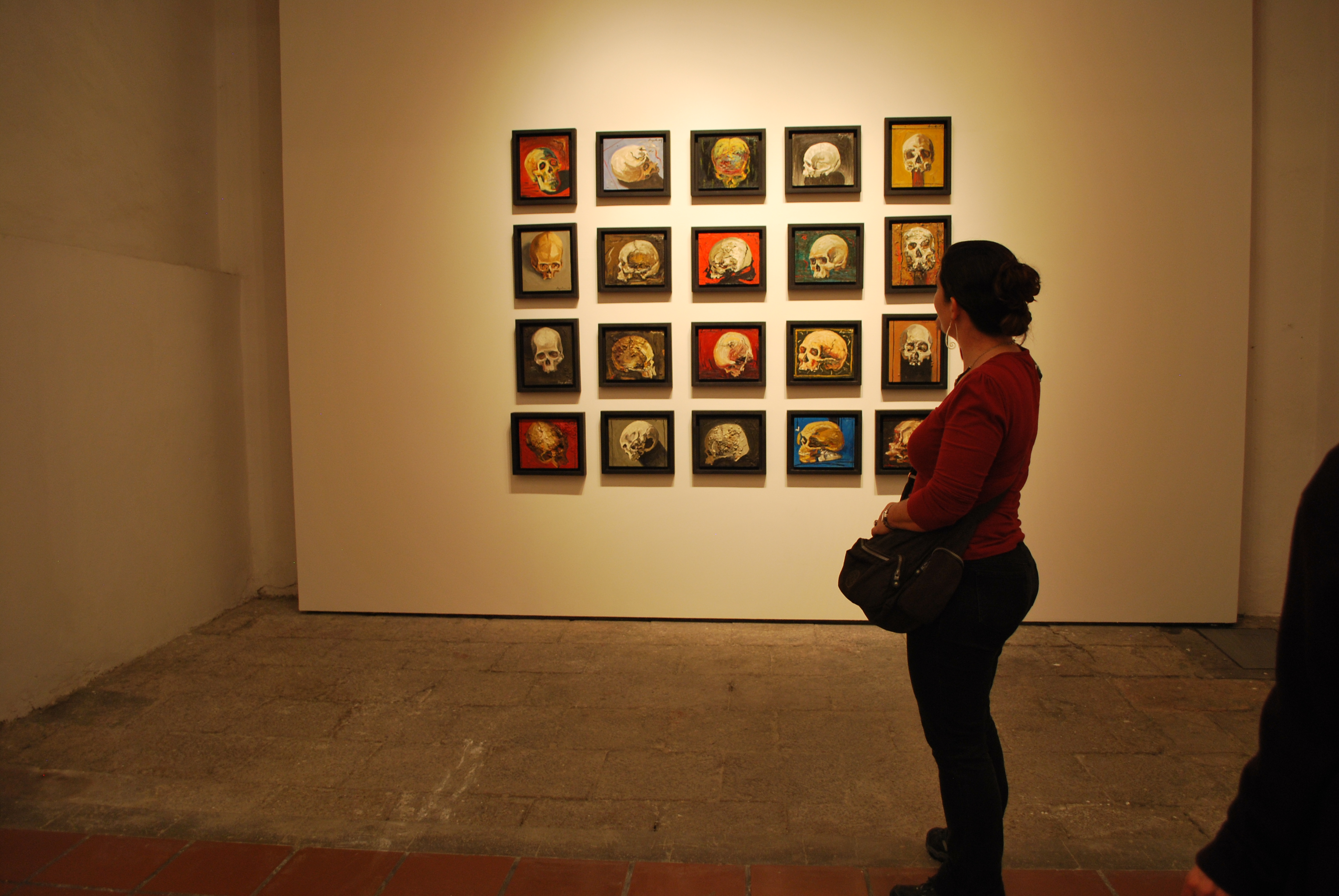 exhibit of Luis Argudín at the Museo de la Secretaría de Hacienda y Crédito Público